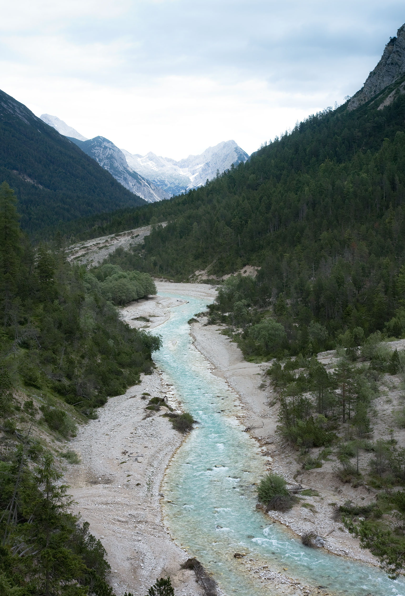 Hinterautal, Scharnitz, Austria